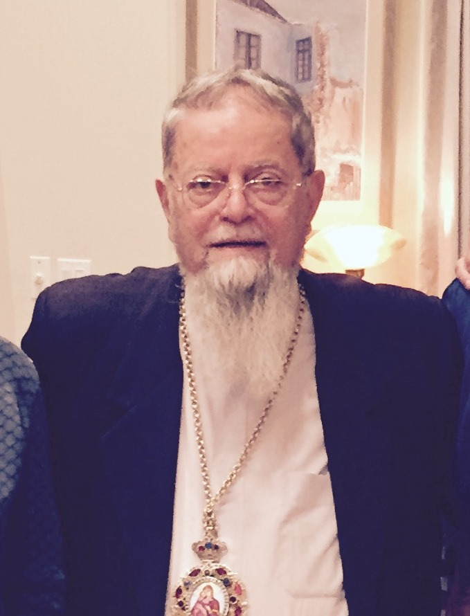 Elias Chacour (2015)